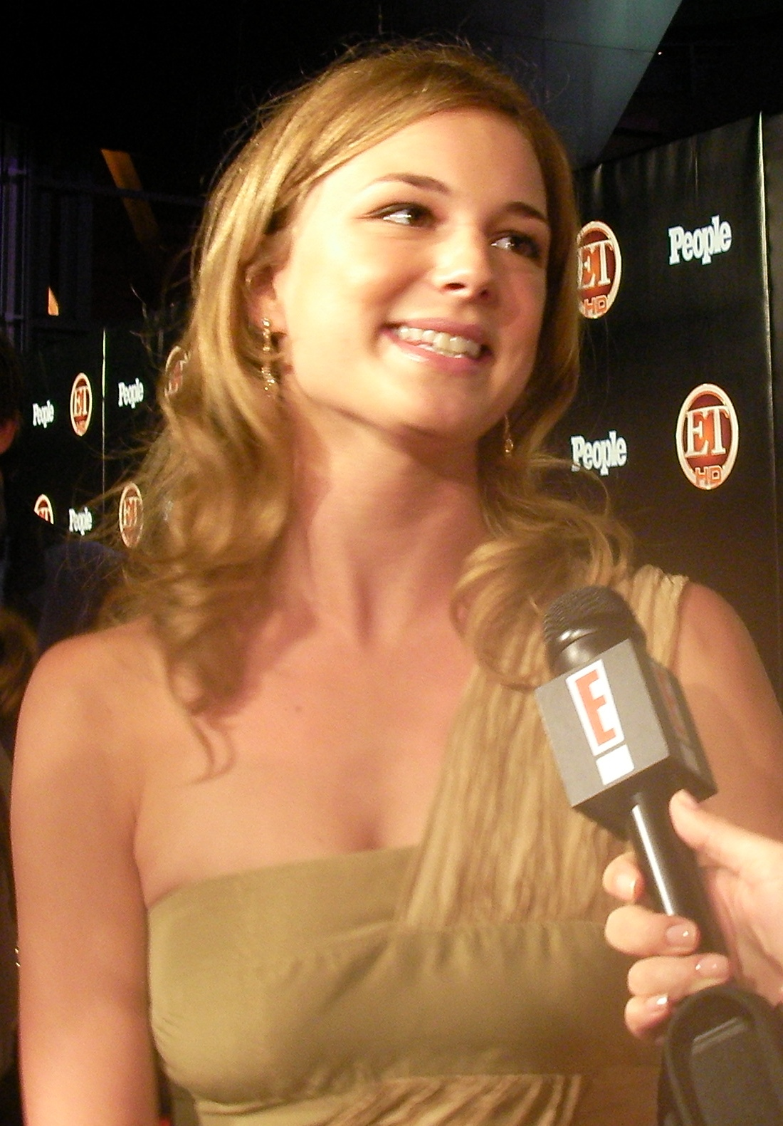 ET Post-Emmys Party, Walt Disney Concert Hall, Sept. 21, 2008